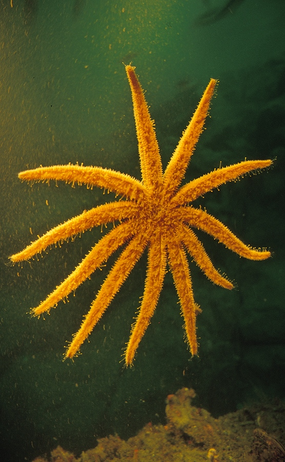 Eleven-armed Sea Star (Coscinasterias calamaria) at the Observatory in Harrisons Cove, Milford Sound, New Zealand